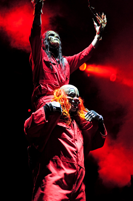 Joey Jordison and Shawn Crahan of Slipknot performing live at Soundwave Festival 2012.